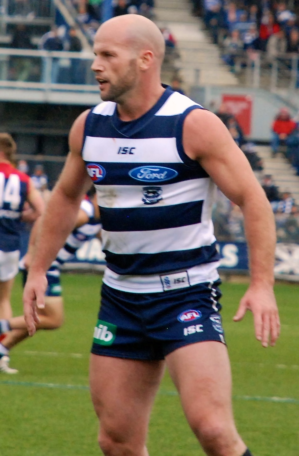 Paul Chapman in Round 19 of the 2011 AFL season